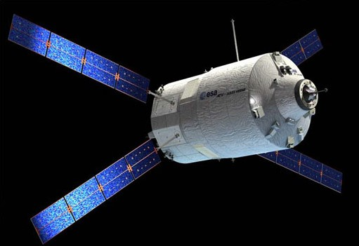 Drawing of ESA's Automated Transfer Vehicle